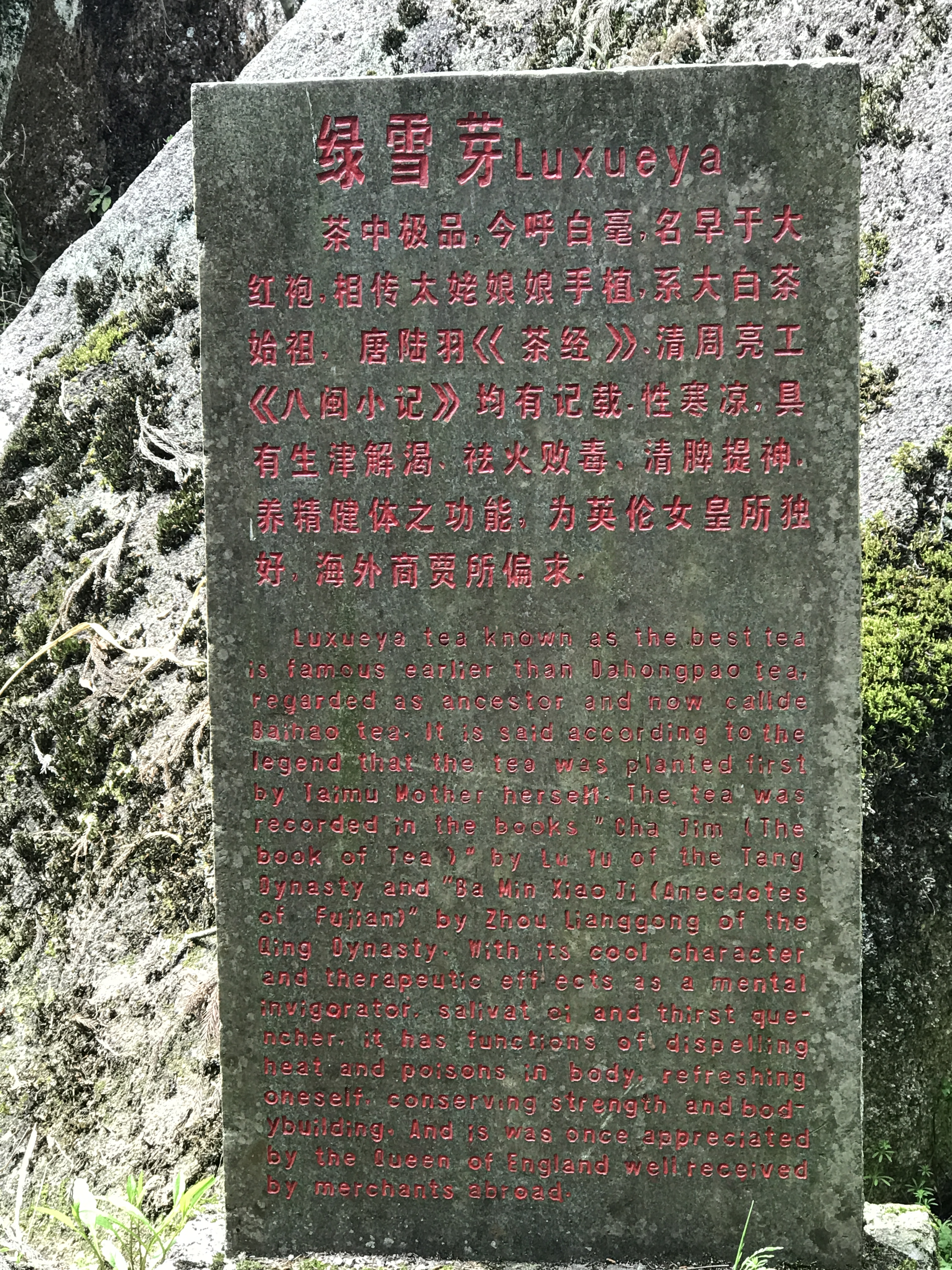 Location: Taimu Mountain, Fuding, Fujian Province